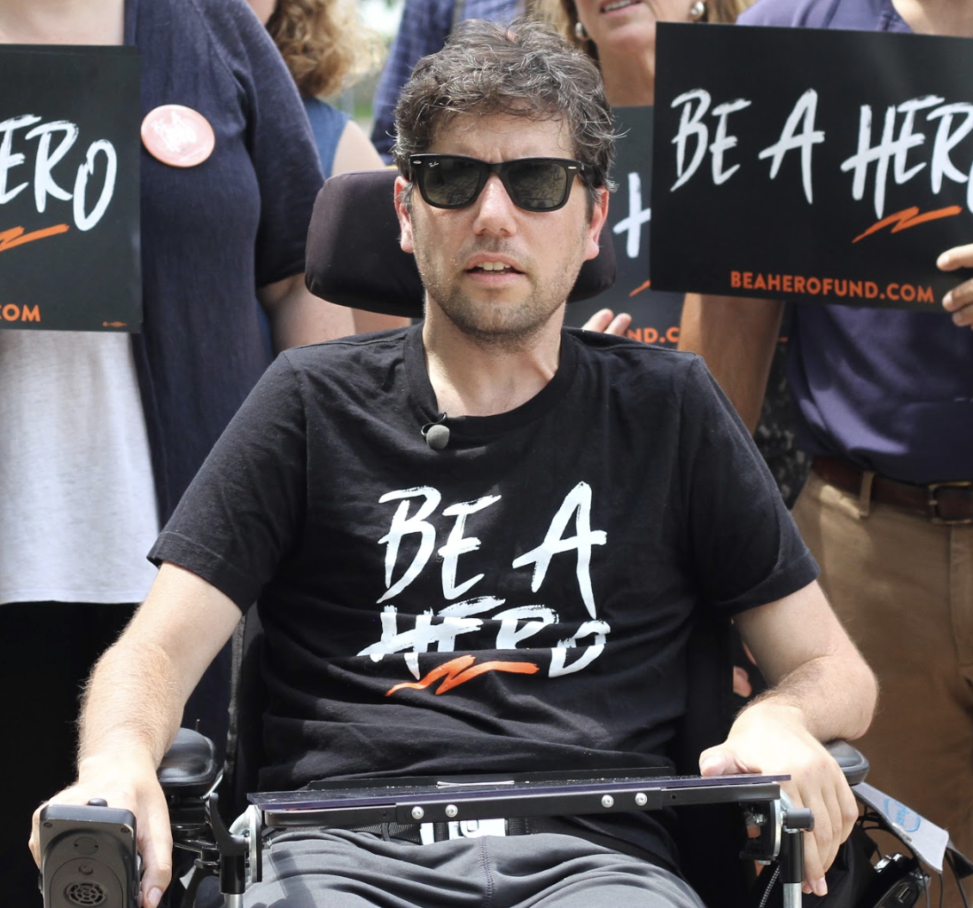 Activist Ady Barkan during the "Summer of Heroes" bus tour.